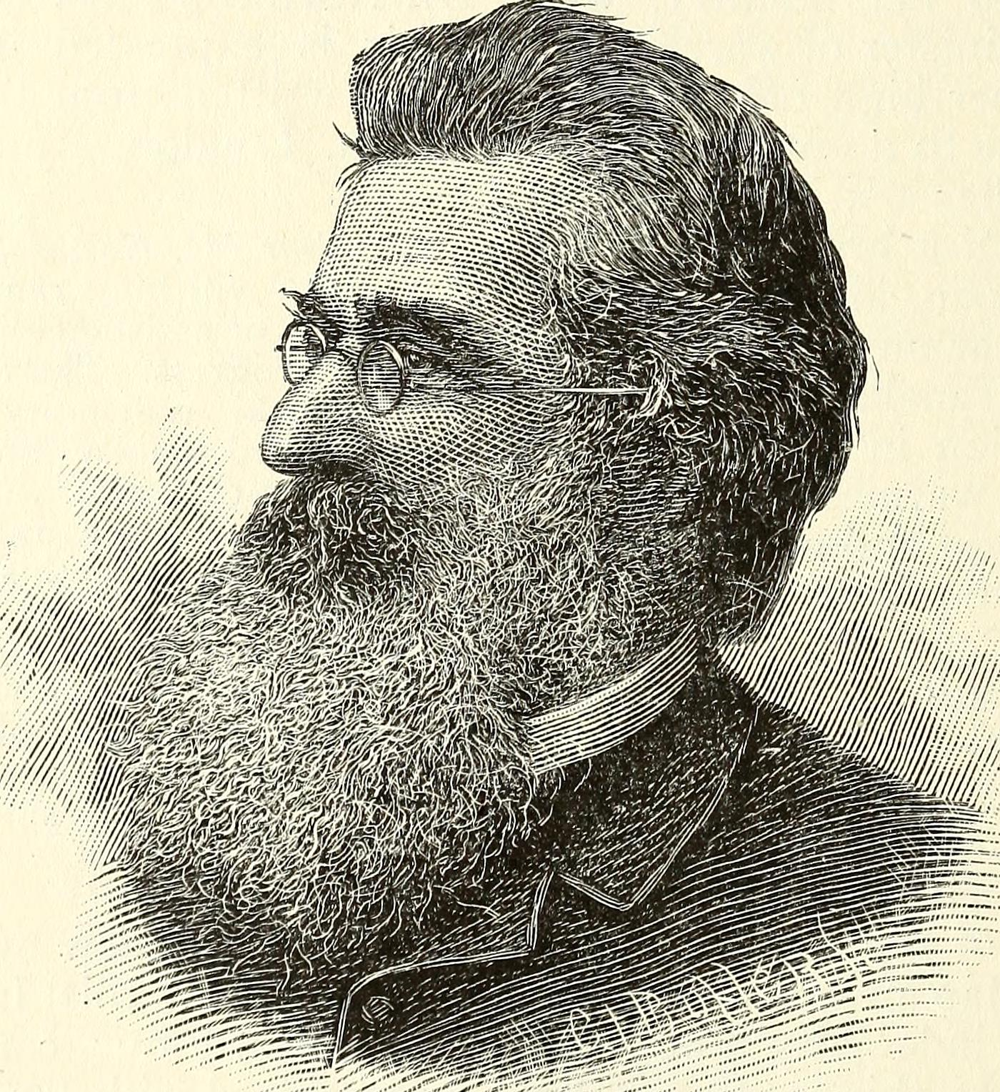 Picture of Birdsey Northrop of Connecticut who was responsible for globalizing Arbor Day when he visited Japan in 1883 and delivered his Arbor Day and Village Improvement message.